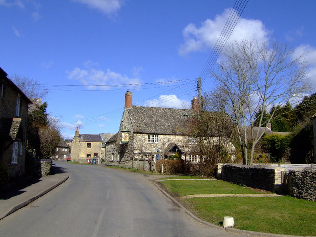 Tackley Original description: Gardener Arms, Tackley Greene King pub